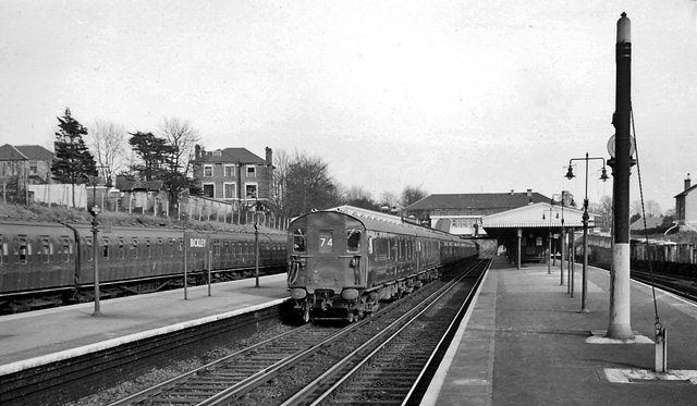 Bickley Station. View eastwards, towards Swanley, Chatham, Faversham - Ramsgate/Dover; ex-LC&D Main line. A Dover Marine - Victoria electric express is passing on the Up Main.